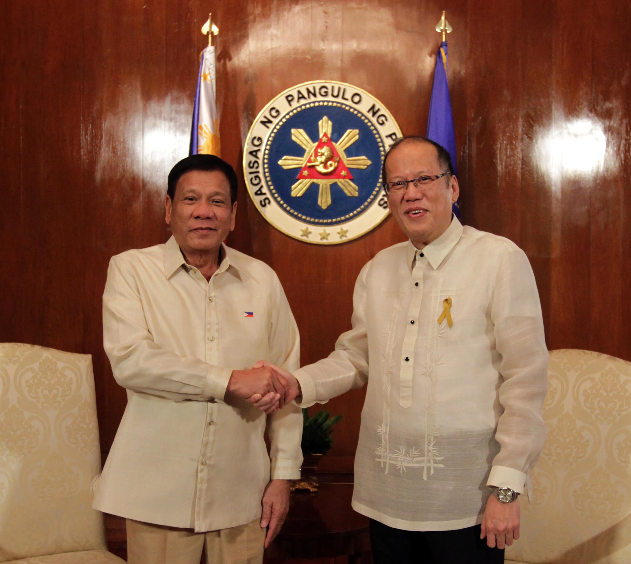 President-elect Rodrigo Roa Duterte and outgoing President Benigno S. Aquino III meet at the President’s Hall Sala for a courtesy call before the formal inaugural ceremony..